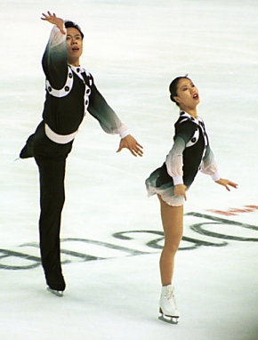 Xue Shen and Hongbo Zhao compete their long program at the 2001 Grand Prix Final in Kitchener, Ontario.